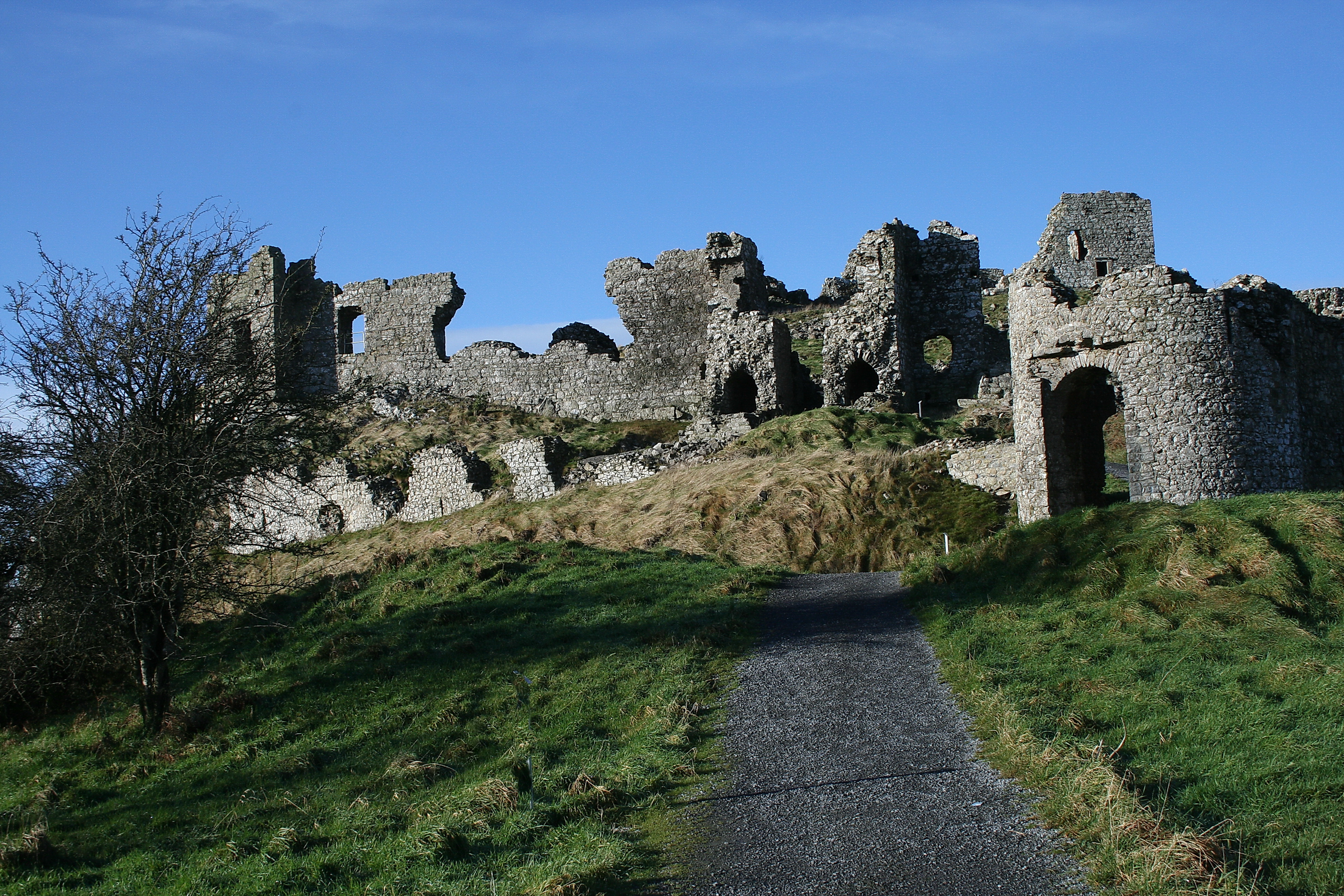 Rock of Dunamase